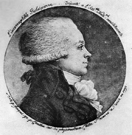 Engraved portrait of Maximilien Robespierre by Gilles-Louis Chrétien from a physionotrace drawing by Jean-Baptiste Fouquet, made at their studio in the Cloître Saint-Honoré, Paris 1792. The caption reads: "L'incorruptible Robespierre – Député à l'Ass.blée Nati.ale constituante" and "Dess. p. Fouquet. gr. p. Chrétien inv. du physionotrace Cloître St. Honoré à Paris en 1792". There is a strong visual relationship with a pencil drawing (Château de Versailles Inv. Dess. 857), which may be Fouquet's original physionotrace (a mirror-image of the engraving), but has been trimmed of its signature.